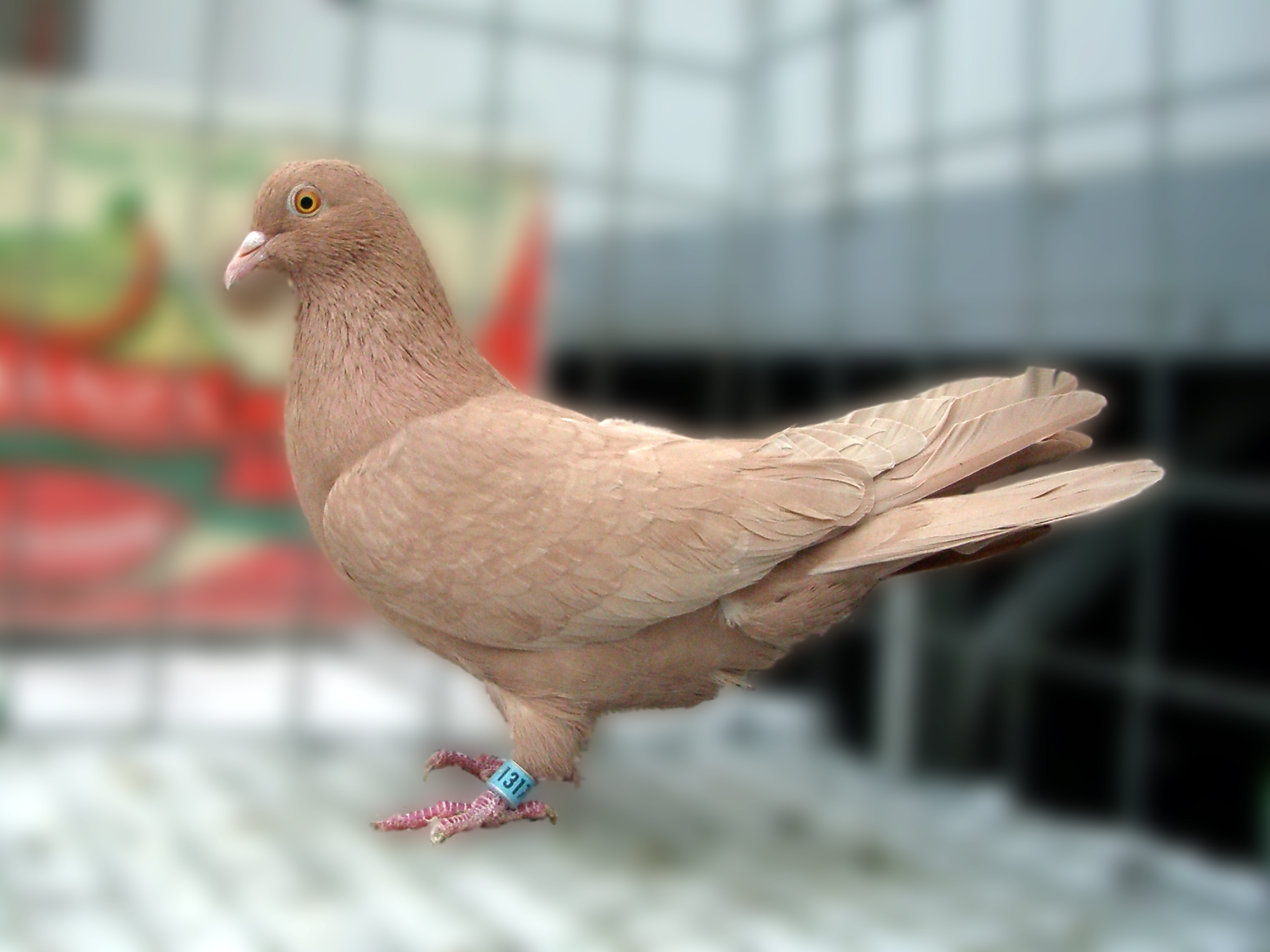 Permian High-flying Solid Yellow Pigeon